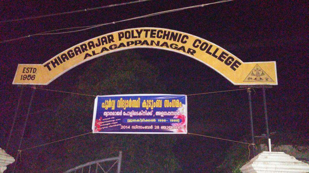 Thiagarajar Polytechnic College Alagappanagar entrance arch.